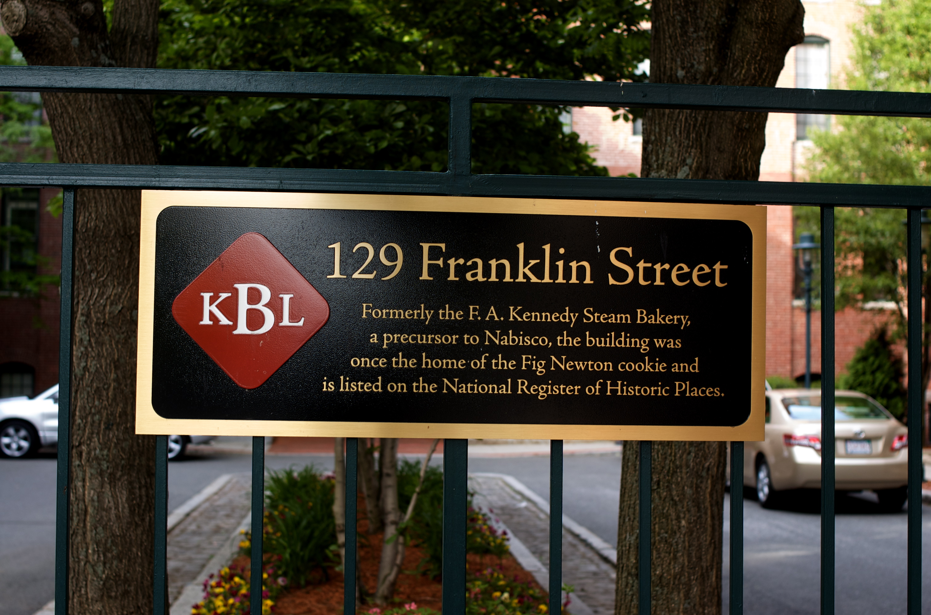 The plaque on the front gate of the Kennedy Biscuit Lofts at 129 Franklin Street in Cambridge, Massachusetts. The Kennedy Biscuit Lofts is a condominium complex built on the site of the former F. A. Kennedy Steam Bakery (a property listed on the National Register of Historic Places.